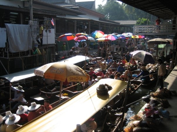 The Damnoen Saduak Floating Market in Ratchaburi province, Thailand